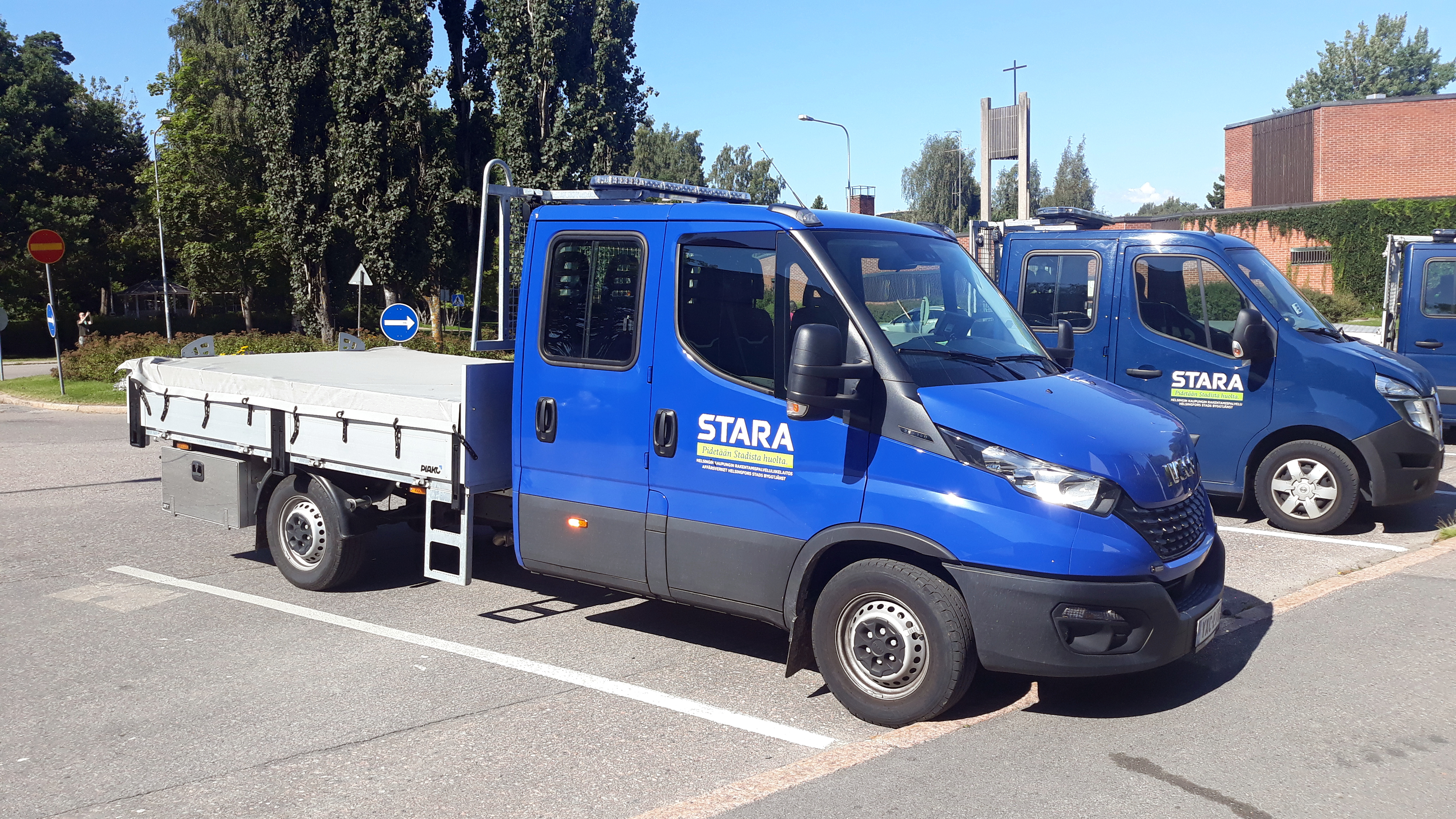 Iveco Daily pick up of Stara in Tammisalo, Helsinki.